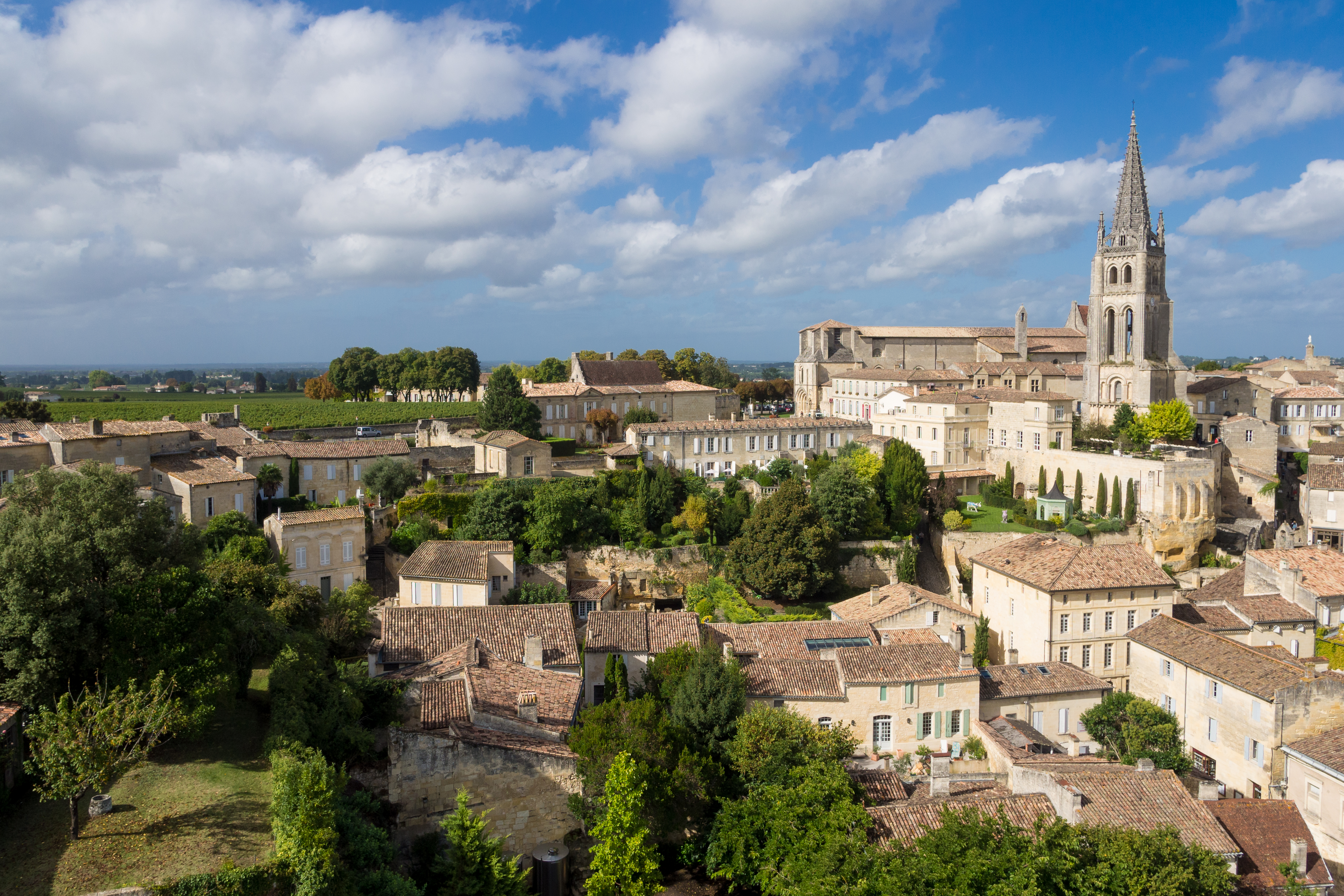 View of Saint-Émilion and its church.